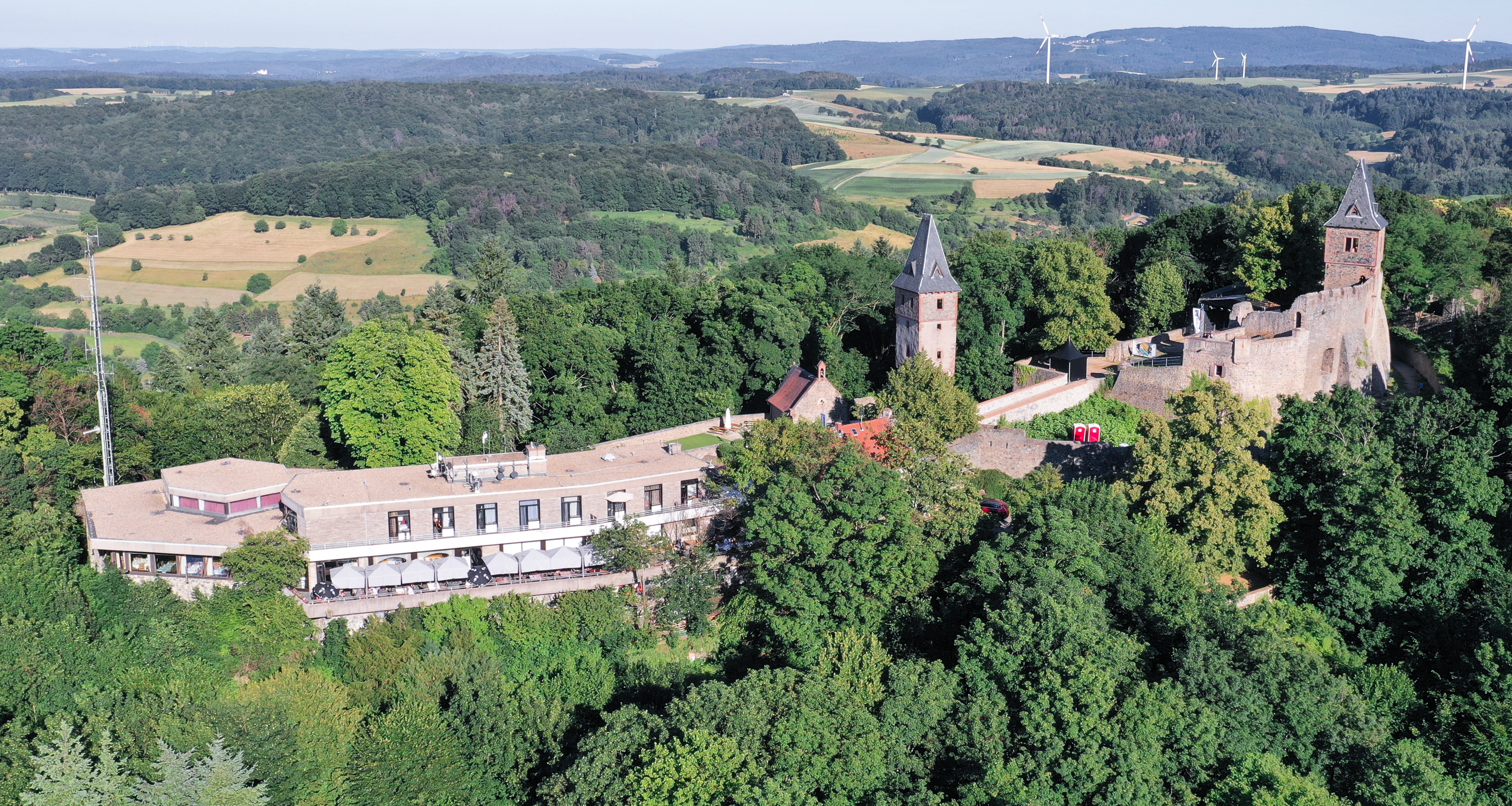 Aerial view of the castle Burg Frankenstein